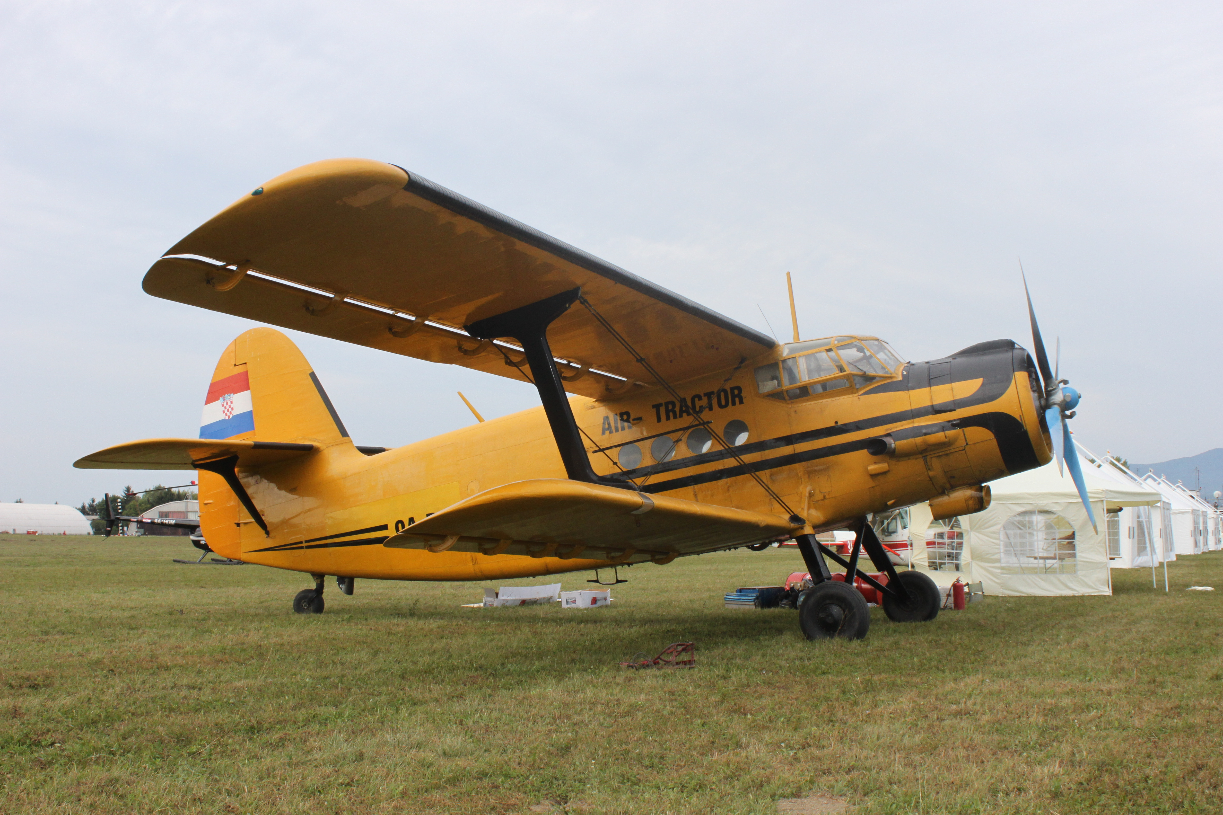 Antonov An-2 9A-DIZ of "Air Tractor" at Lučko, Croatia.